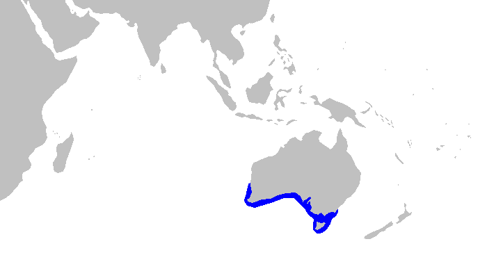 Distribution map for Pristiophorus cirratus